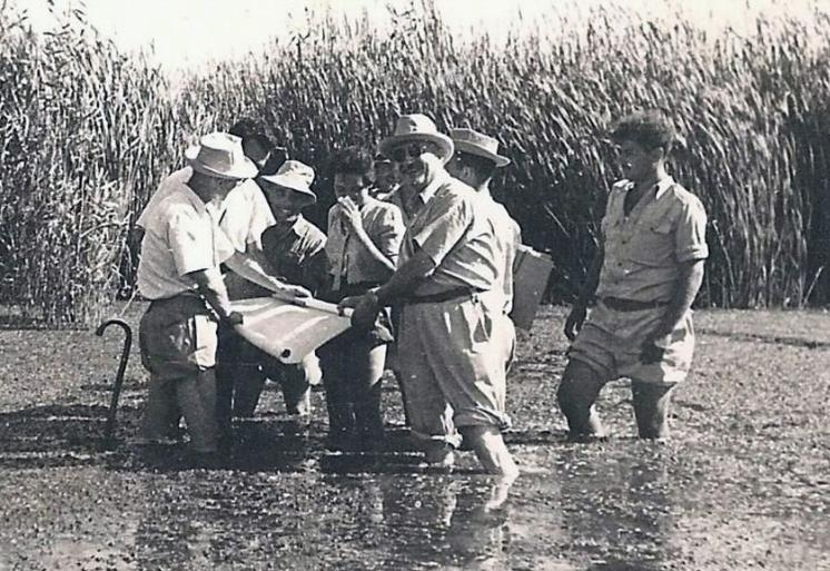 Photograph of Romanian artist Marcel Janco (in the foreground, facing the camera) at the Hula Swamps, British Mandate of Palestine, in 1938. This was Janco's first visit to the country, where he and his family would settle in 1941.